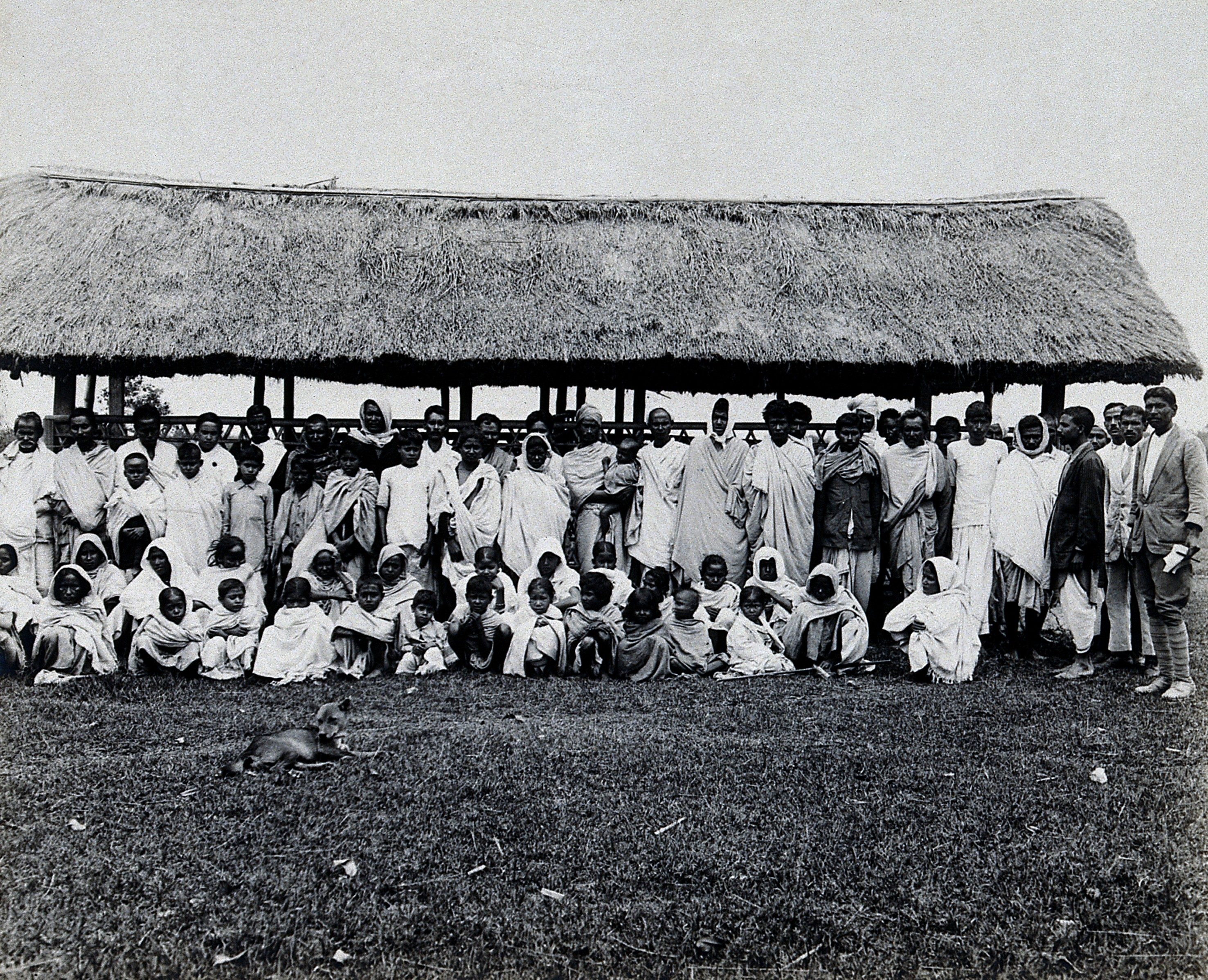 Charingia, Assam, India: kala-azar patients; a group of men, women and children. Iconographic Collections